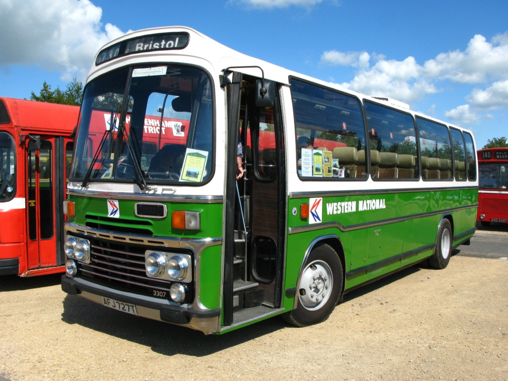 Western National 3307 (AFJ 727T) is a Plaxton Supreme coach on a 7 feet 6 inch wide Bristol LH6L chassis built in 1979 for operation on the narrow lanes in Devon and Cornwall.